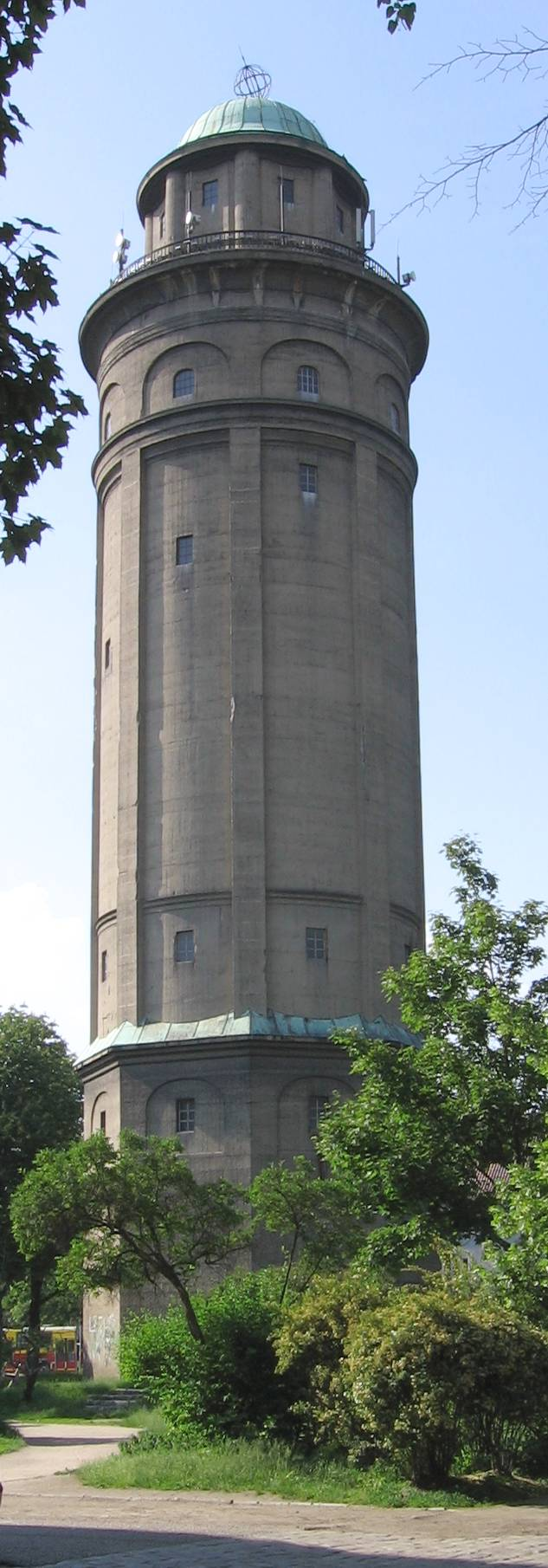 Wroclaw, Poland: water tower (erected 1915) for northern part of the city (Kasprowicza Street / Daniłowskiego Square). One of early iron-concrete constructions in Lower Silesia region.